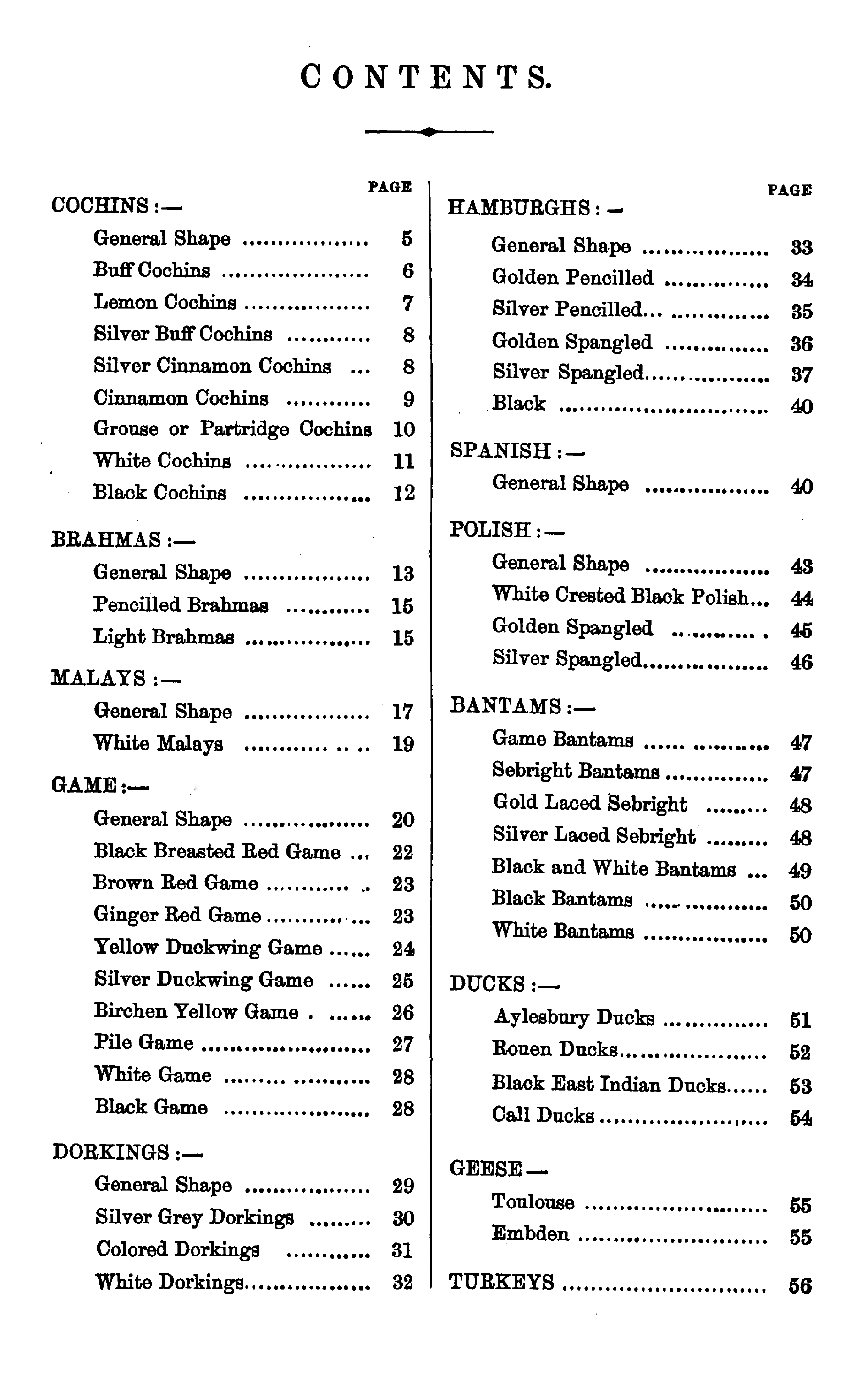 contents page of: William Bernhard Tegetmeier (editor) (1865). The standard of excellence in Exhibition Poultry, authorized by the Poultry Club. London: Poultry Club.